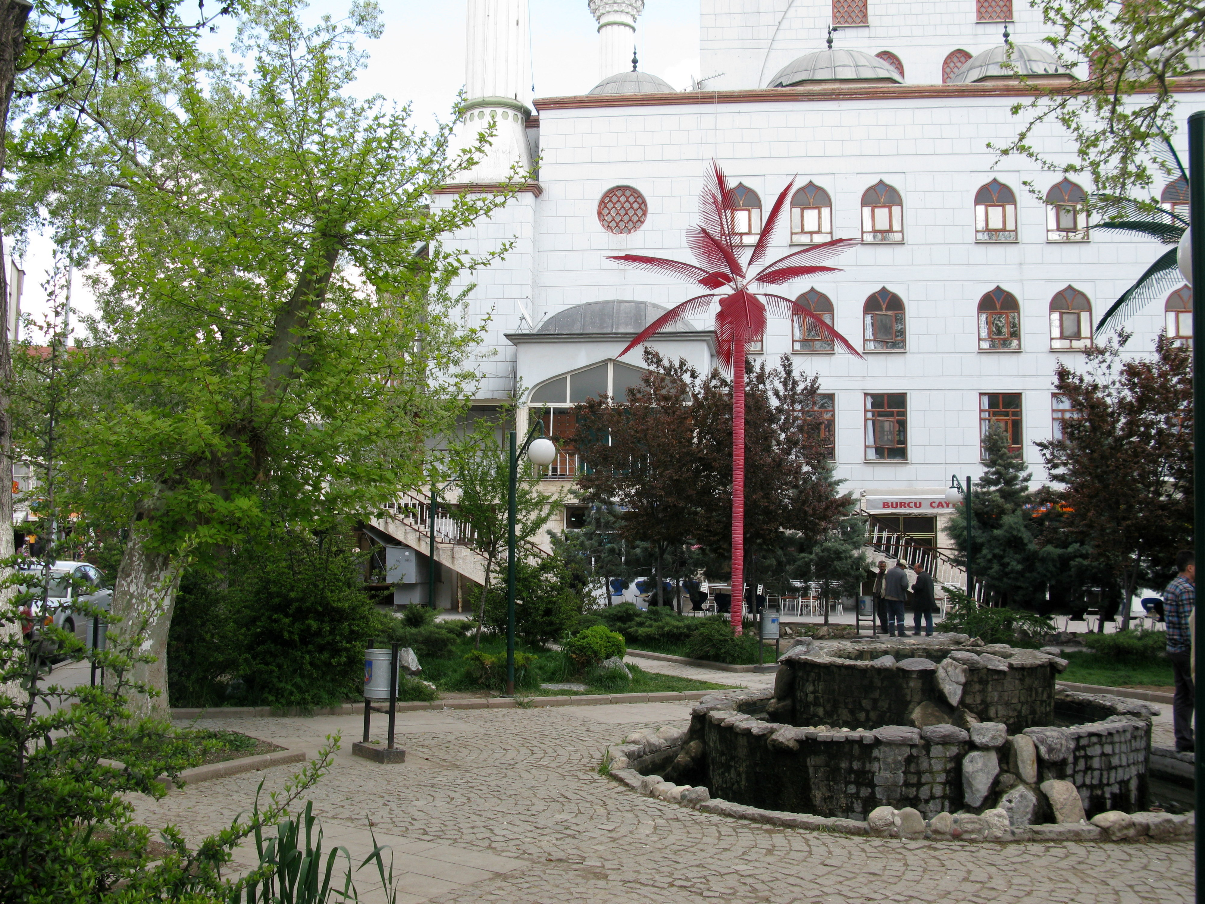 Park in front of the mosque at the Ankara cadesi at the main bus stop in Polatlı, Province of Ankara in Turkey